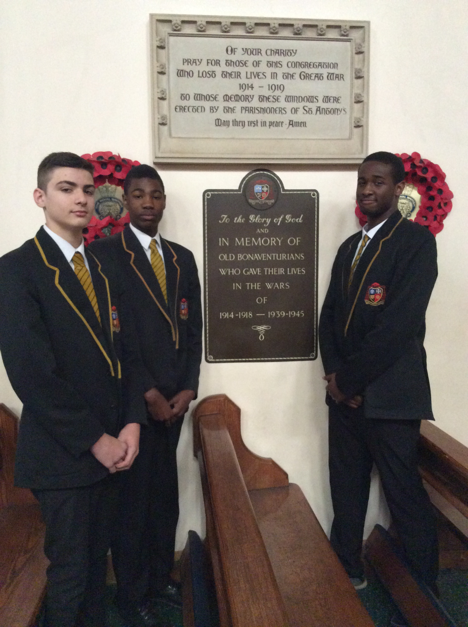 The plaque to honour Old Bonaventurians that died in the world wars, found in St Antony's Church, Forest Gate.